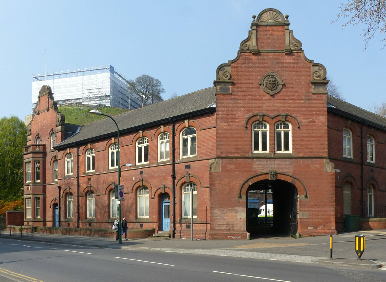 Nottingham Corporation Water Works building, Castle Boulevard